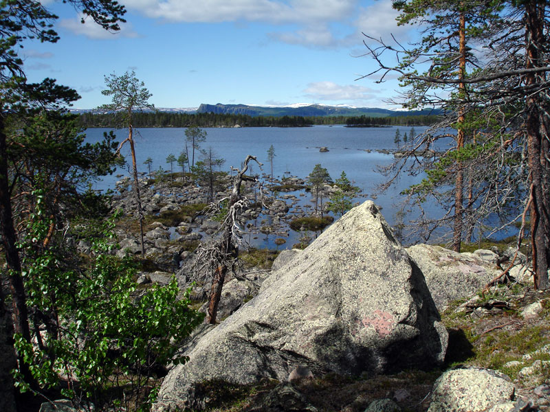 Lake Plähkkajávrre (Bläckajaure) in Tjieggelvas nature reserve, Norrbotten county, Sweden.